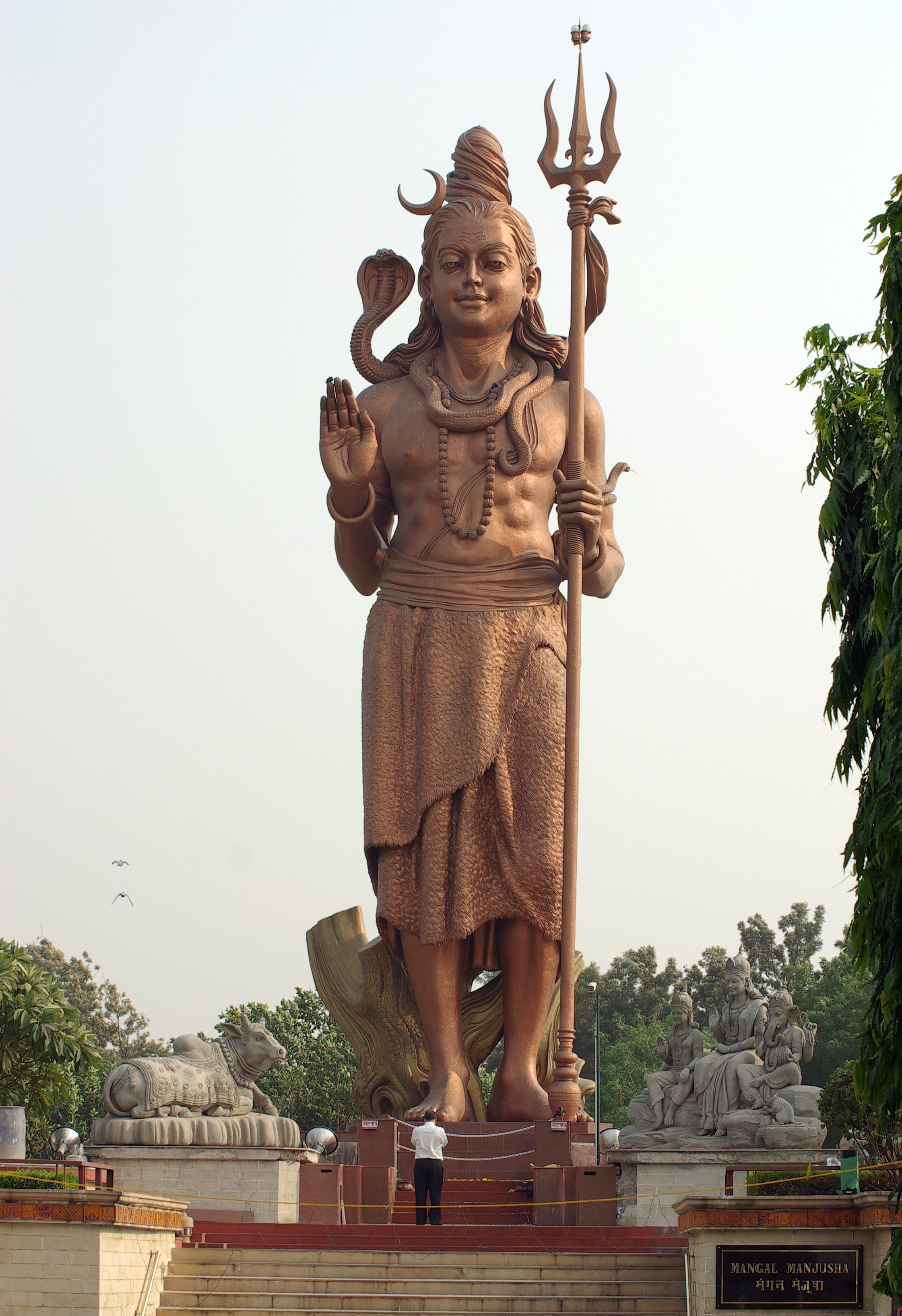 Statue of Lord Shiva in Mauritius